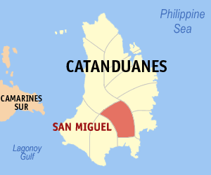 Map of Catanduanes showing the location of San Miguel